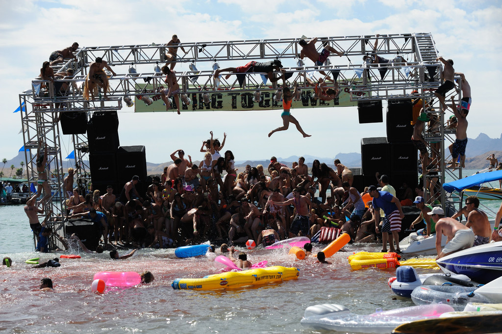 A photo of the massacre scene during Piranha 3D.